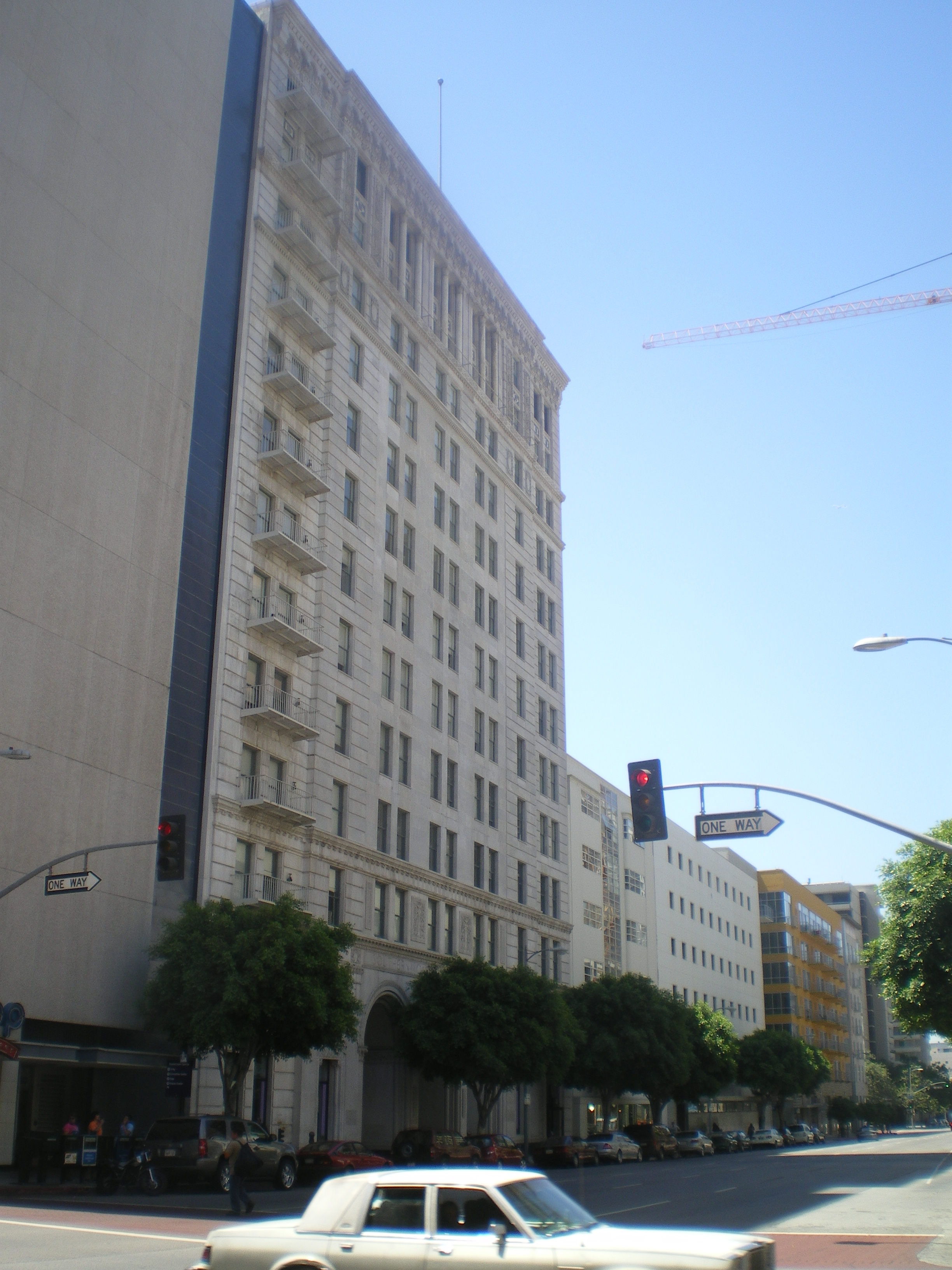 Southern California Gas Company Complex, 800,810,820 and 830 S. Flower St., Los Angeles, California